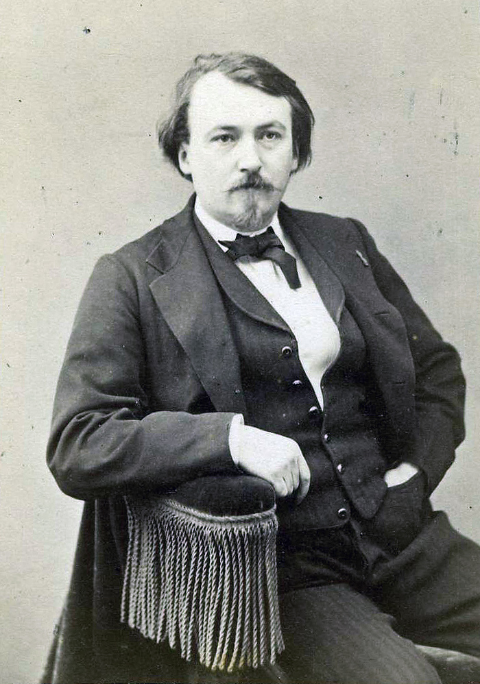 Portrait of Gustave Doré by Nadar